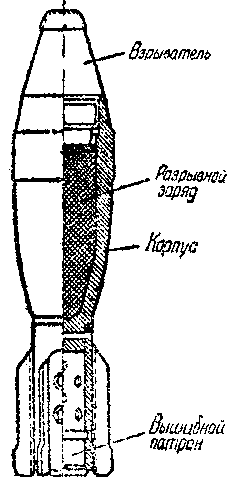 37mm-mortar bomb cross section